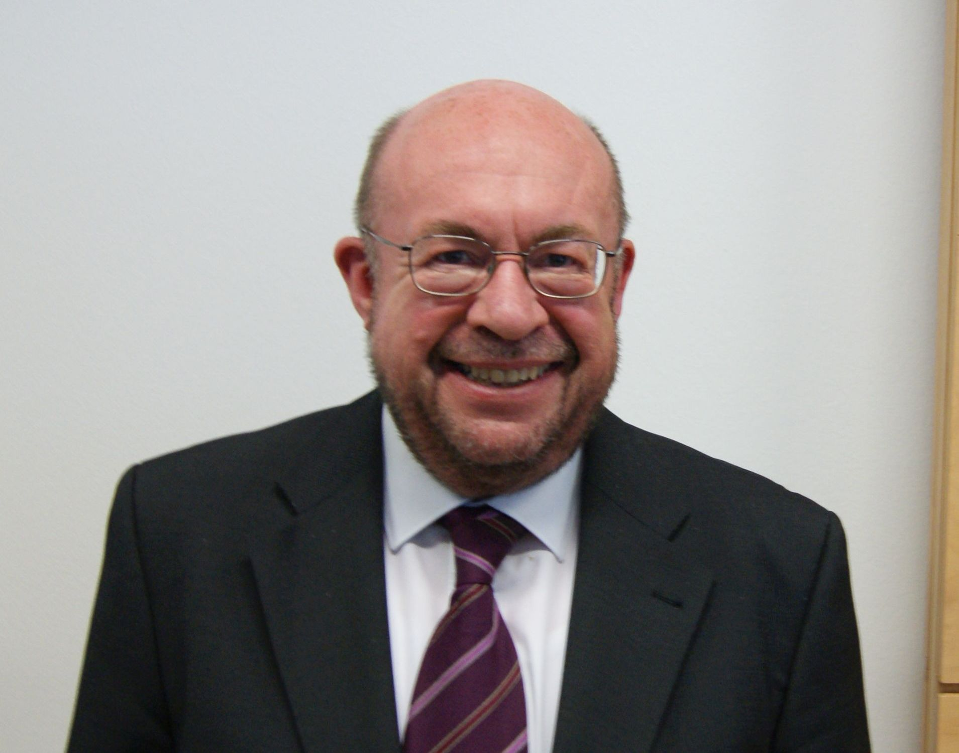 Lecture by François Biltgen (* 1958) at the Management Center Innsbruck (MCI) on April 25, 2019. Pictured: François Biltgen.